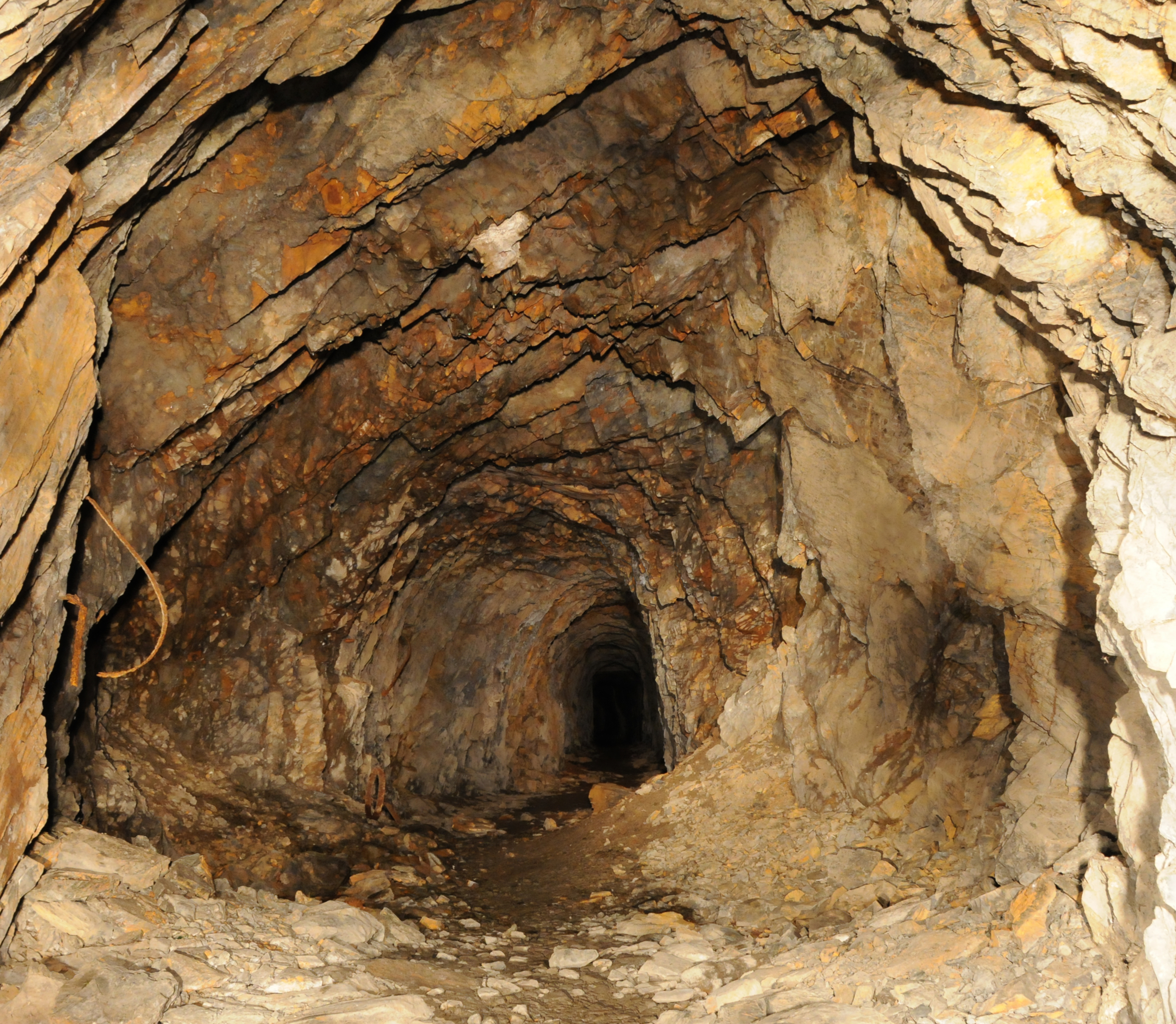 Souterrain in the Salbert hill fortifications.